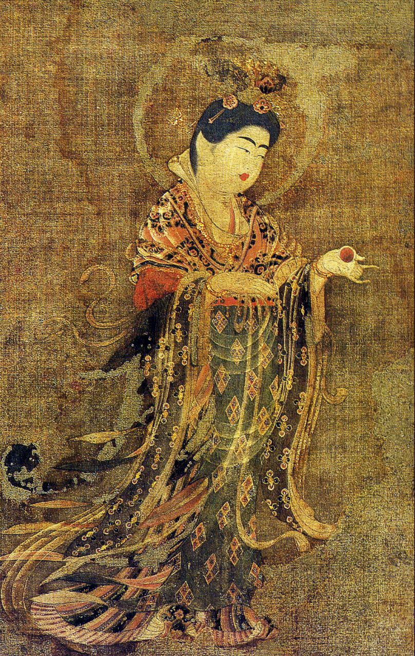 Kichijo-ten, VIII century,Color on silk, 53x323 cm. Yakushi-ji, Nara.